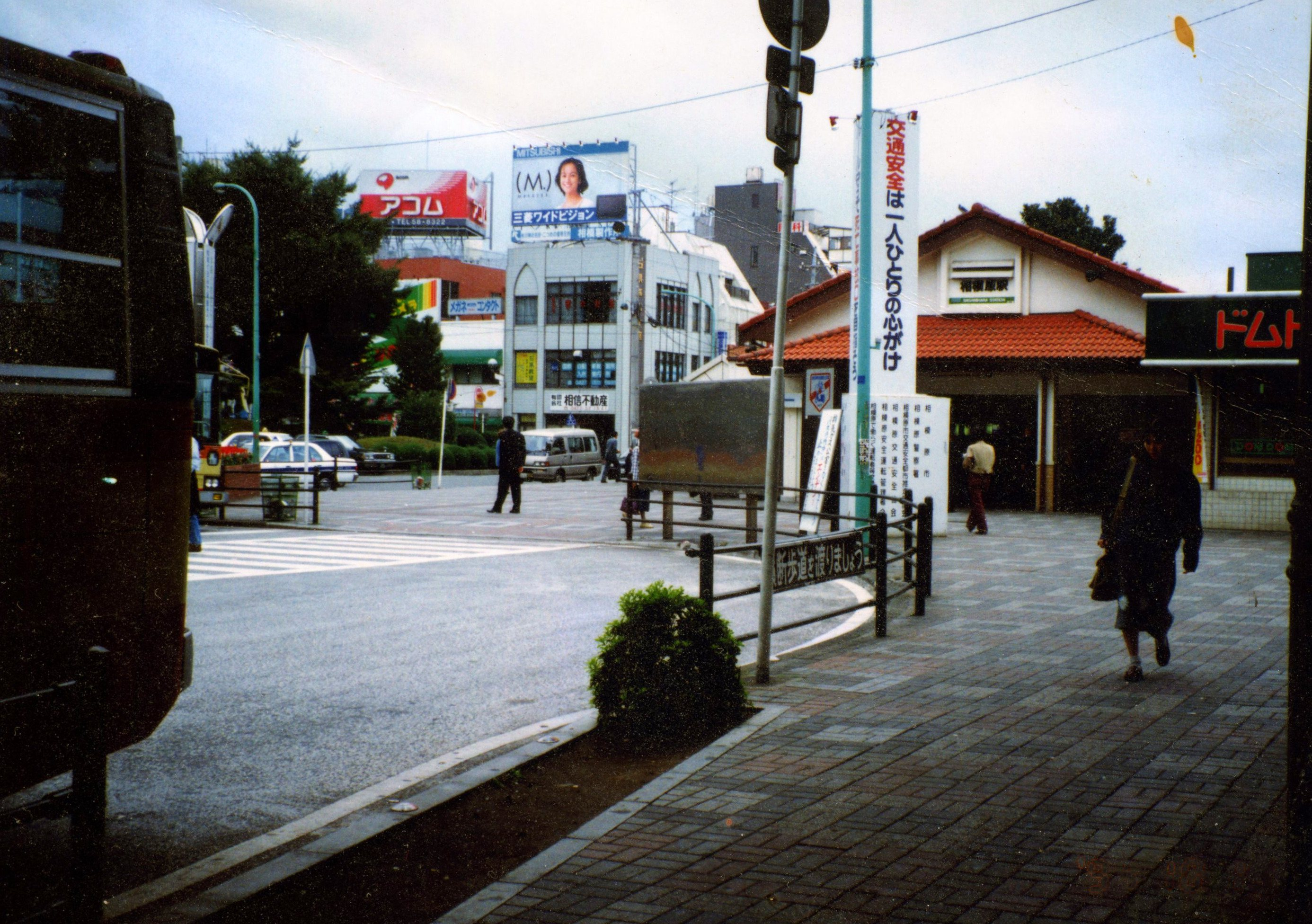 Sagamihara Station before rebuilding and modernization